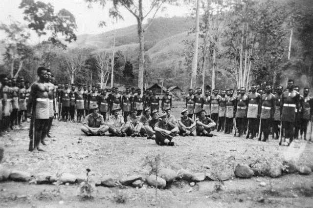 AWM Caption: Papua New Guinea. Members of the Papuan Infantry Battalion.